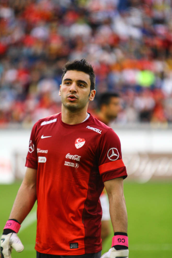 Turkish international football goalkeeper Cenk Gönen